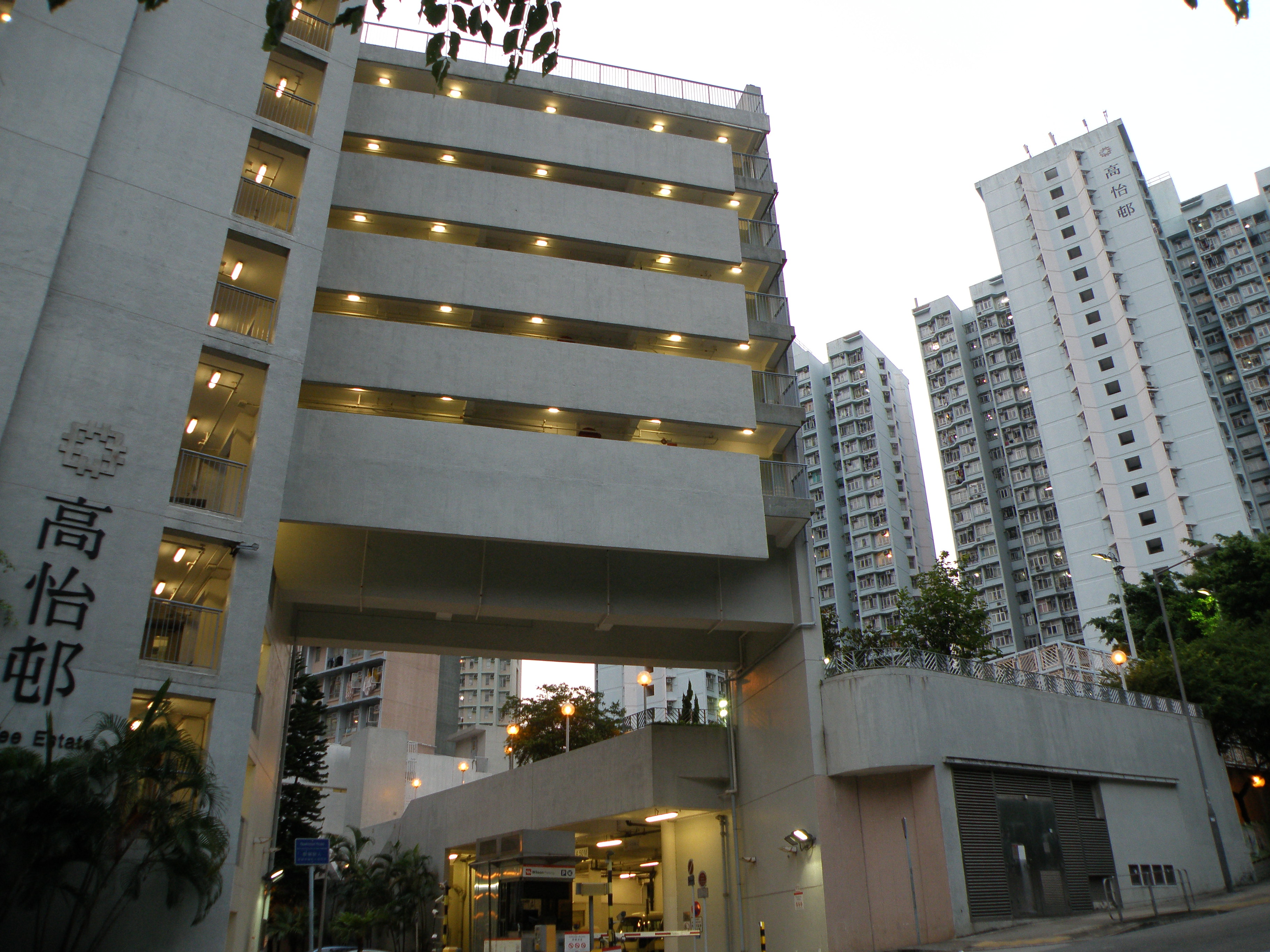 Ko Yee Estate in Yau Tong, Hong Kong.